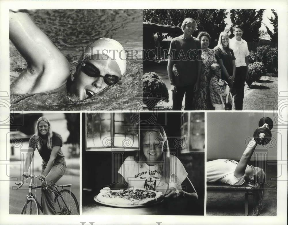 1976 Press Photo Shirley Babashoff-Olympic Swimmer in Various Locations